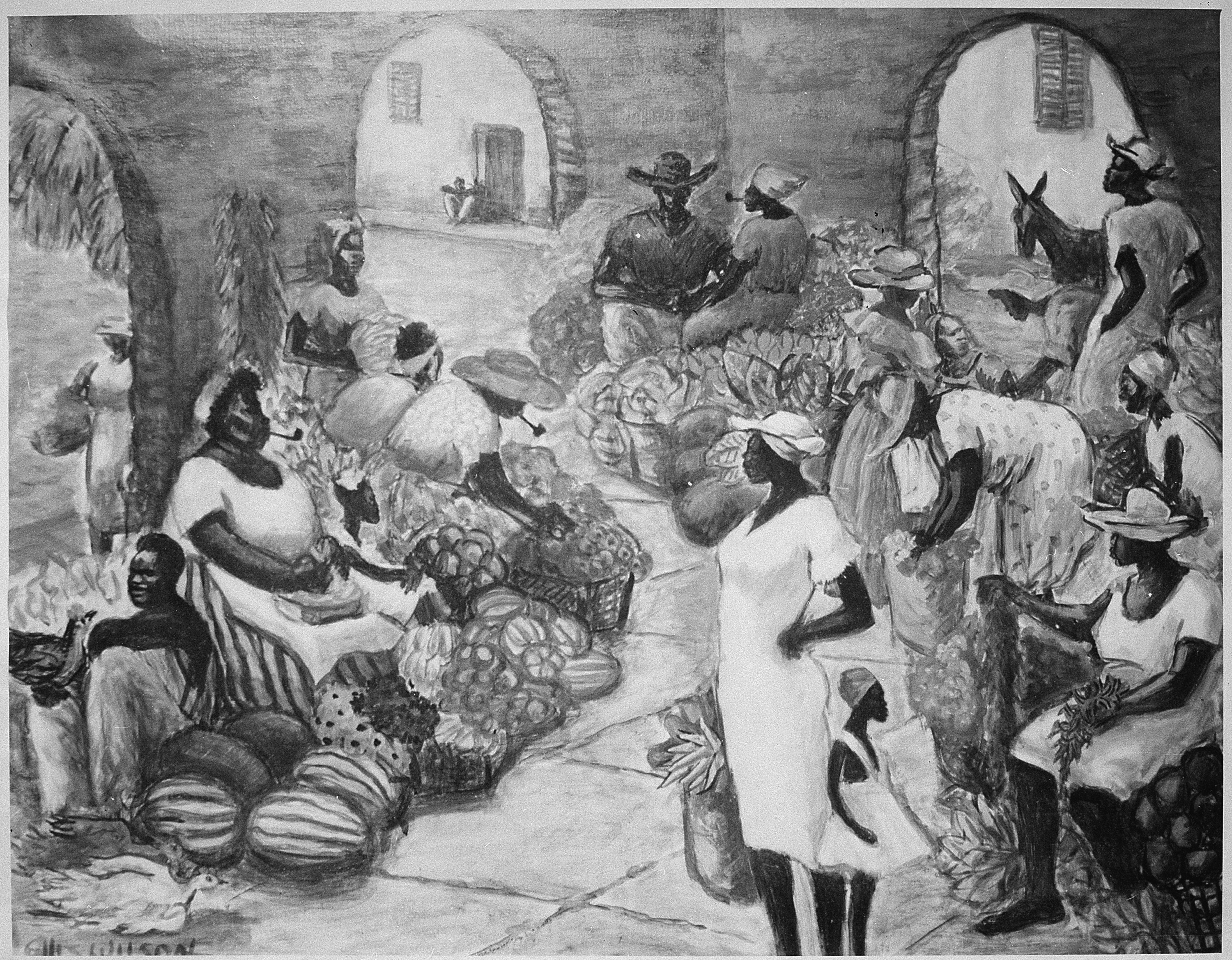 General notes: Painting.This image is also available in color. Please ask Contact below to obtain a copy.